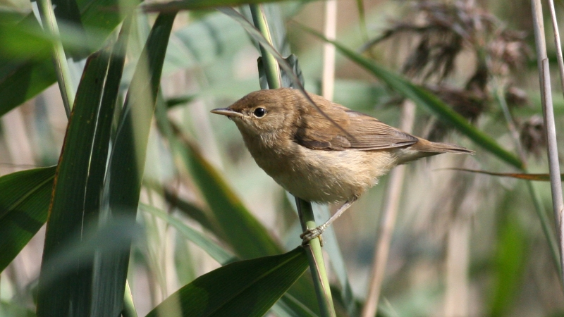 Reed Warbler (Acrocephalus scirpaceus)